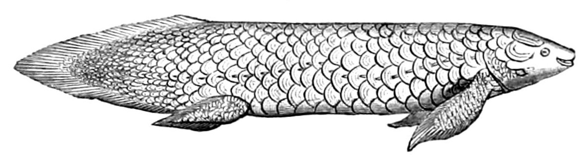 Fig. 89. The Barramunda (Ceratodus) (From Queensland.)